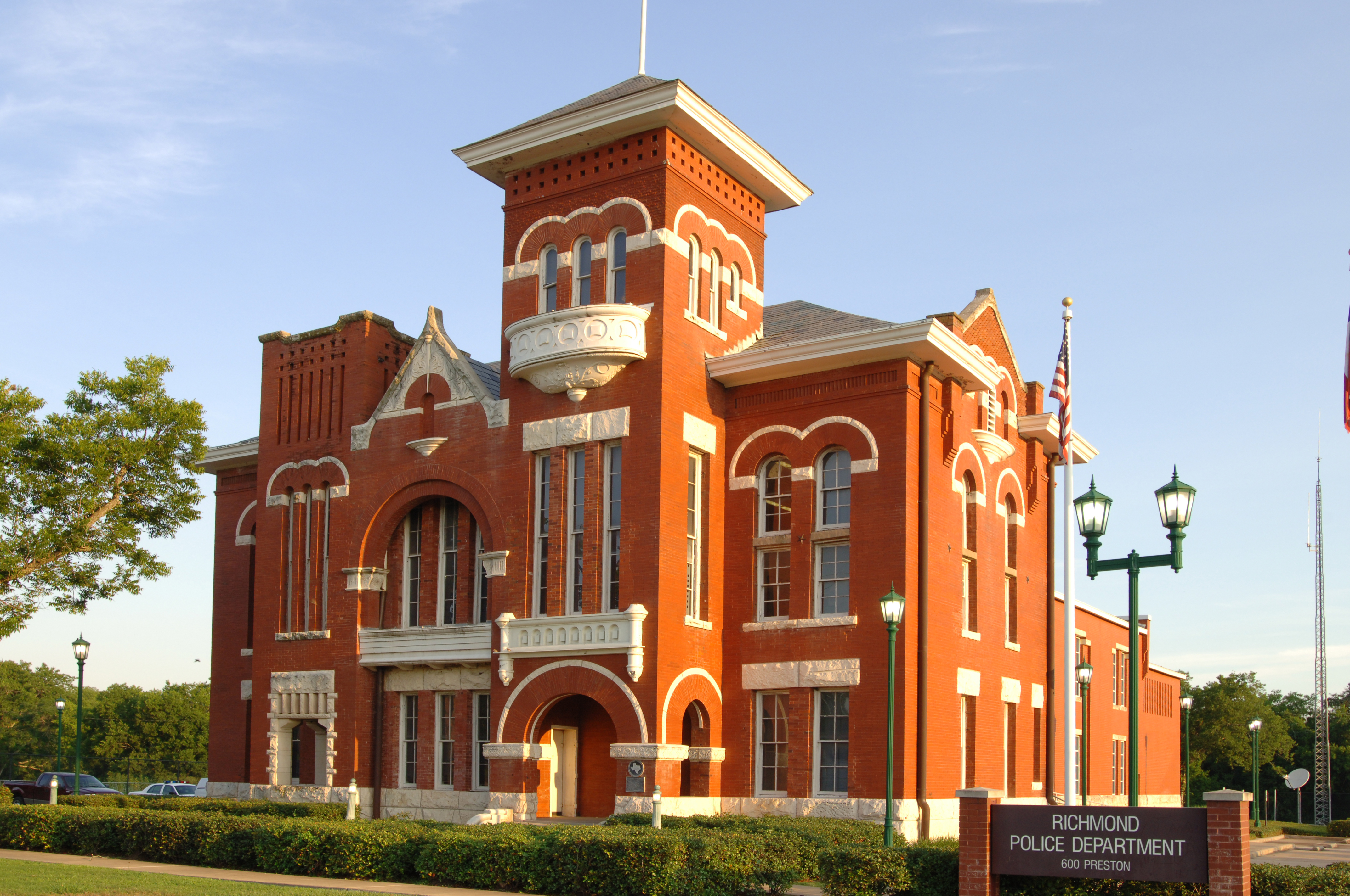 The police department building in Richmond, Texas, USA, which was the Fort Bend County Jail. Recorded Texas Historic Landmark - 1985